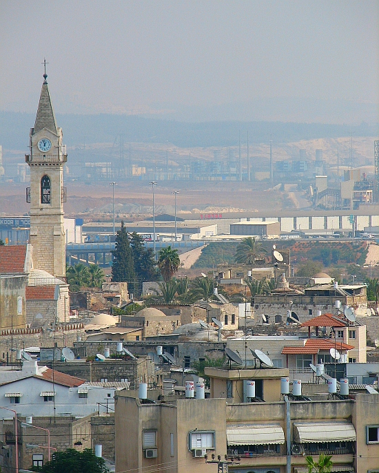 Photo by Gila Brand. This is my own work. View of Ramle from the top of the White Tower, 2006